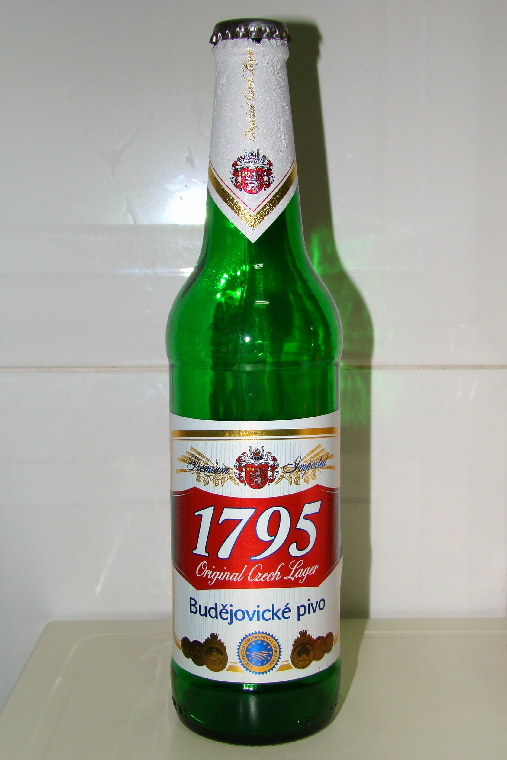 1795 Budějovické pivo (known also as 1795 Budweiser, formerly Budweiser Bier), czech beer brewed in Budějovický měšťanský pivovar (Bürgerliches Brauhaus Budweis) in České Budějovice (Budweis).